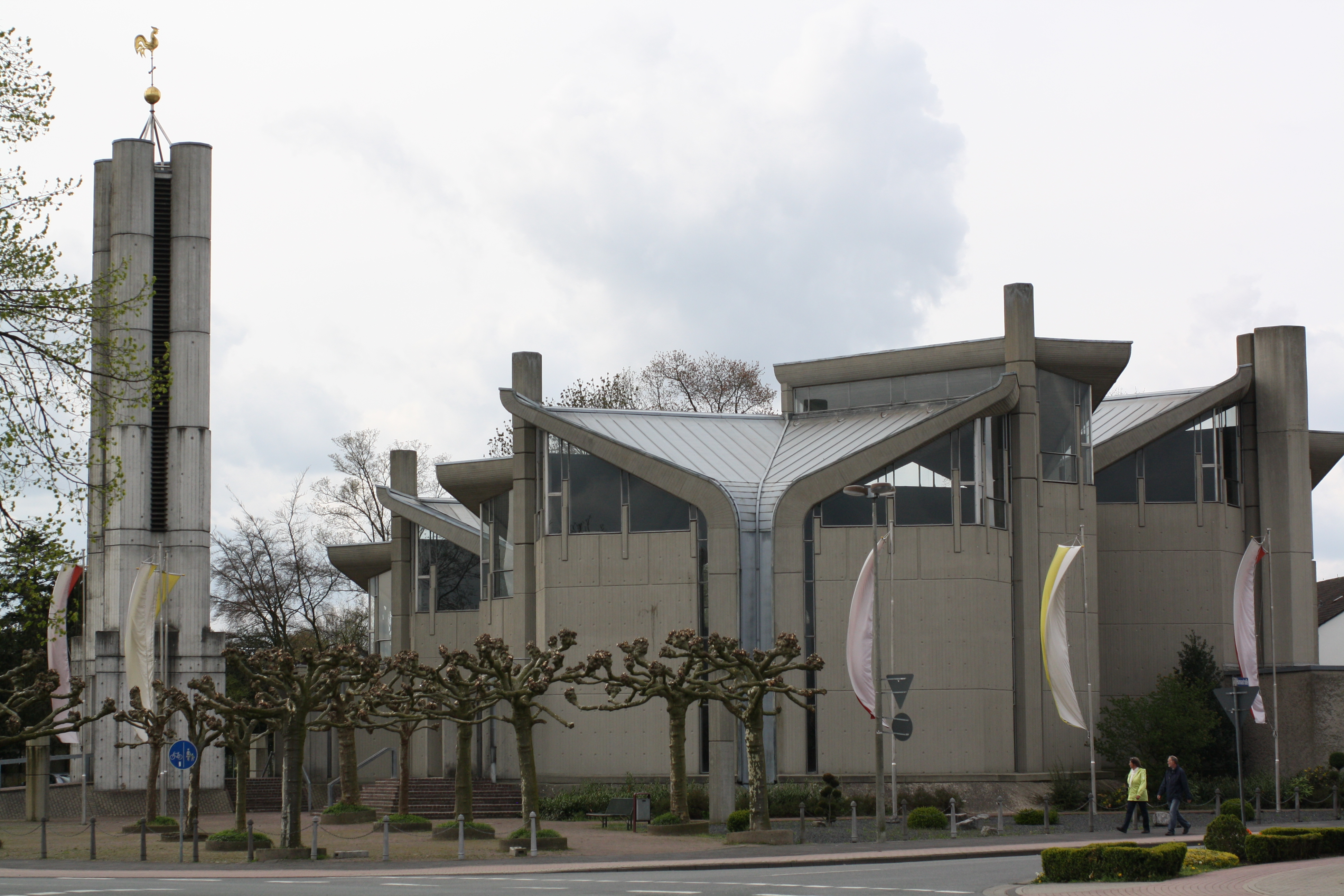 Church of Holy Spirit in Emmerich, North Rhine-Westphalia, Germany